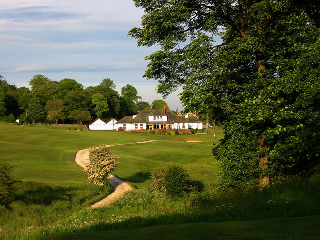 Cavendish Golf Club View from the 18th tee to the Club house, fantastic club very friendly well worth a visit. An Alister MacKenzie designed golf course.